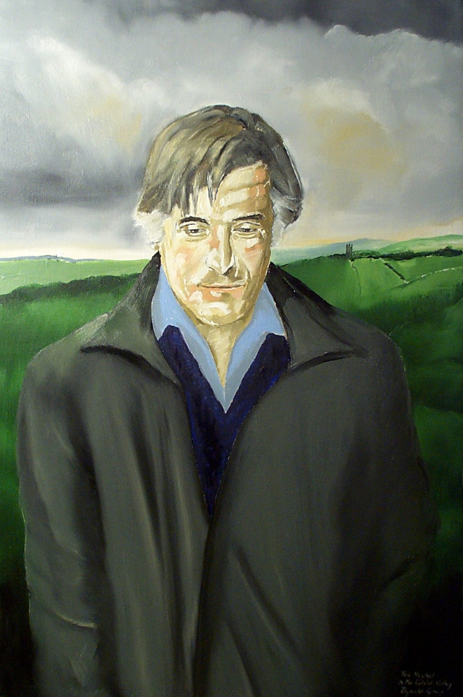 Painting on Canvas